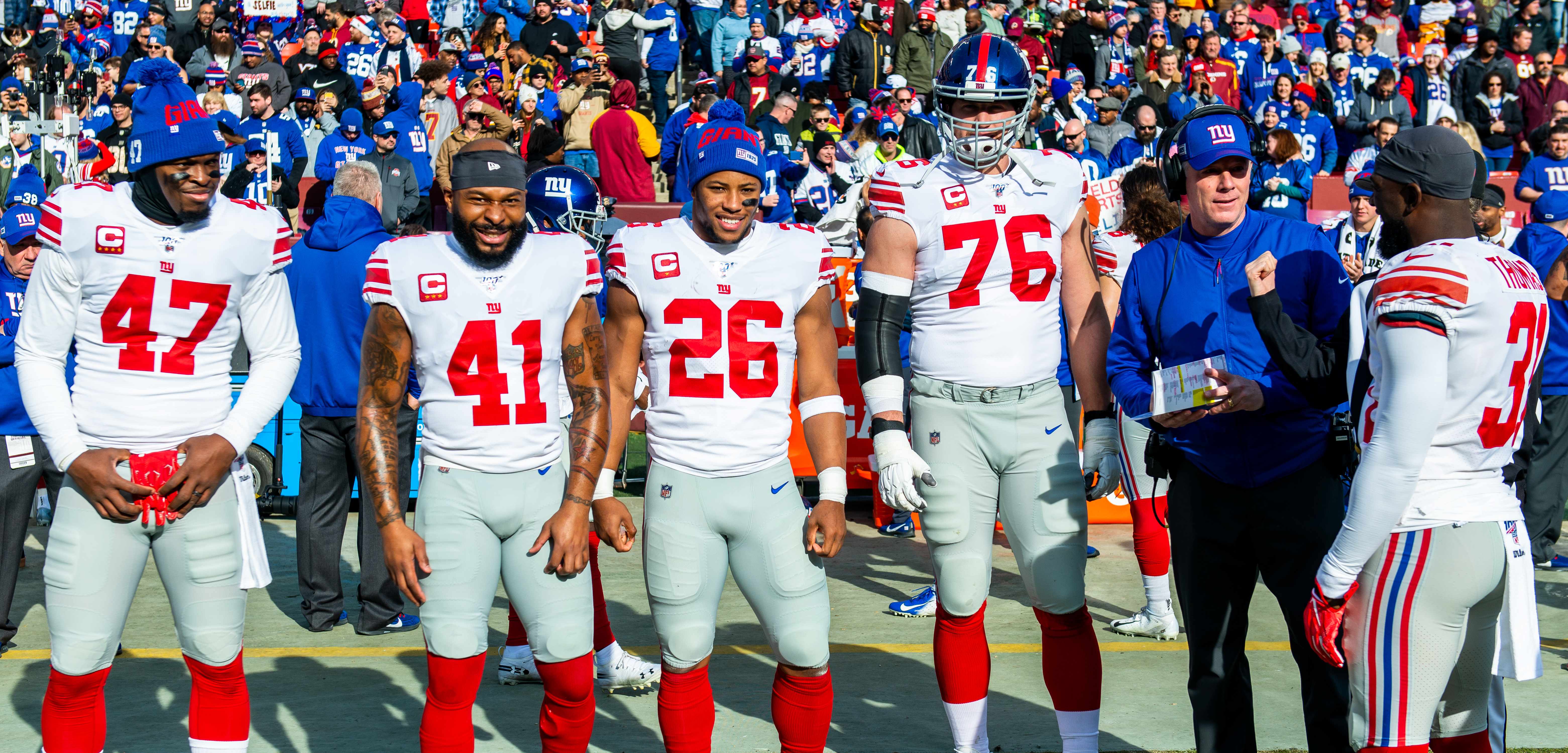 In 2019